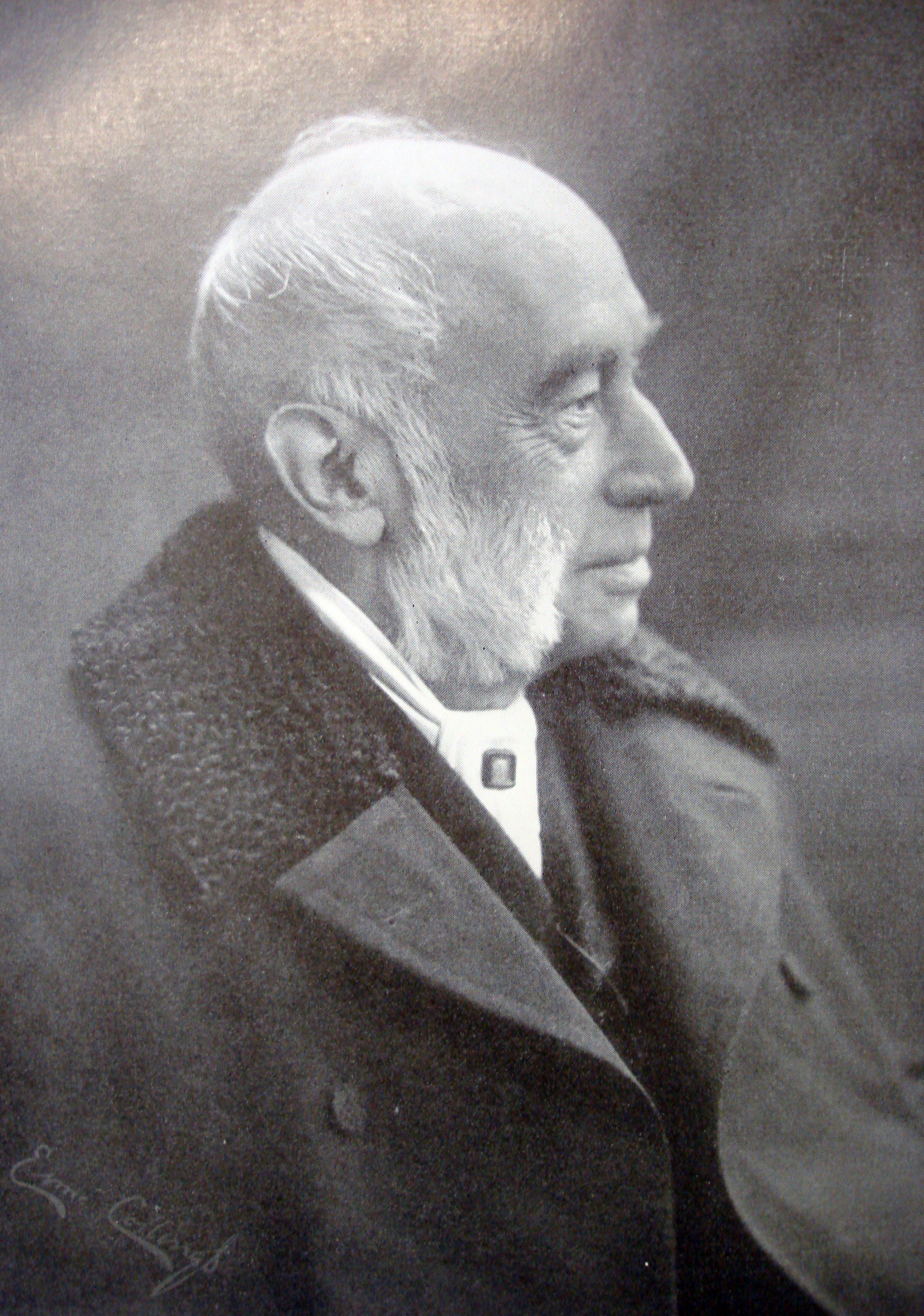 Liverpool philanthropist; worked with Florence Nightingale to establish the first District Nursing service (in Liverpool) in the 1850s, and the Liverpool Training School for Nurses in 1862.